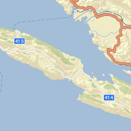 Pelješac-physical map